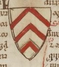 Gilbert de Clare, 4th Earl of Hertford